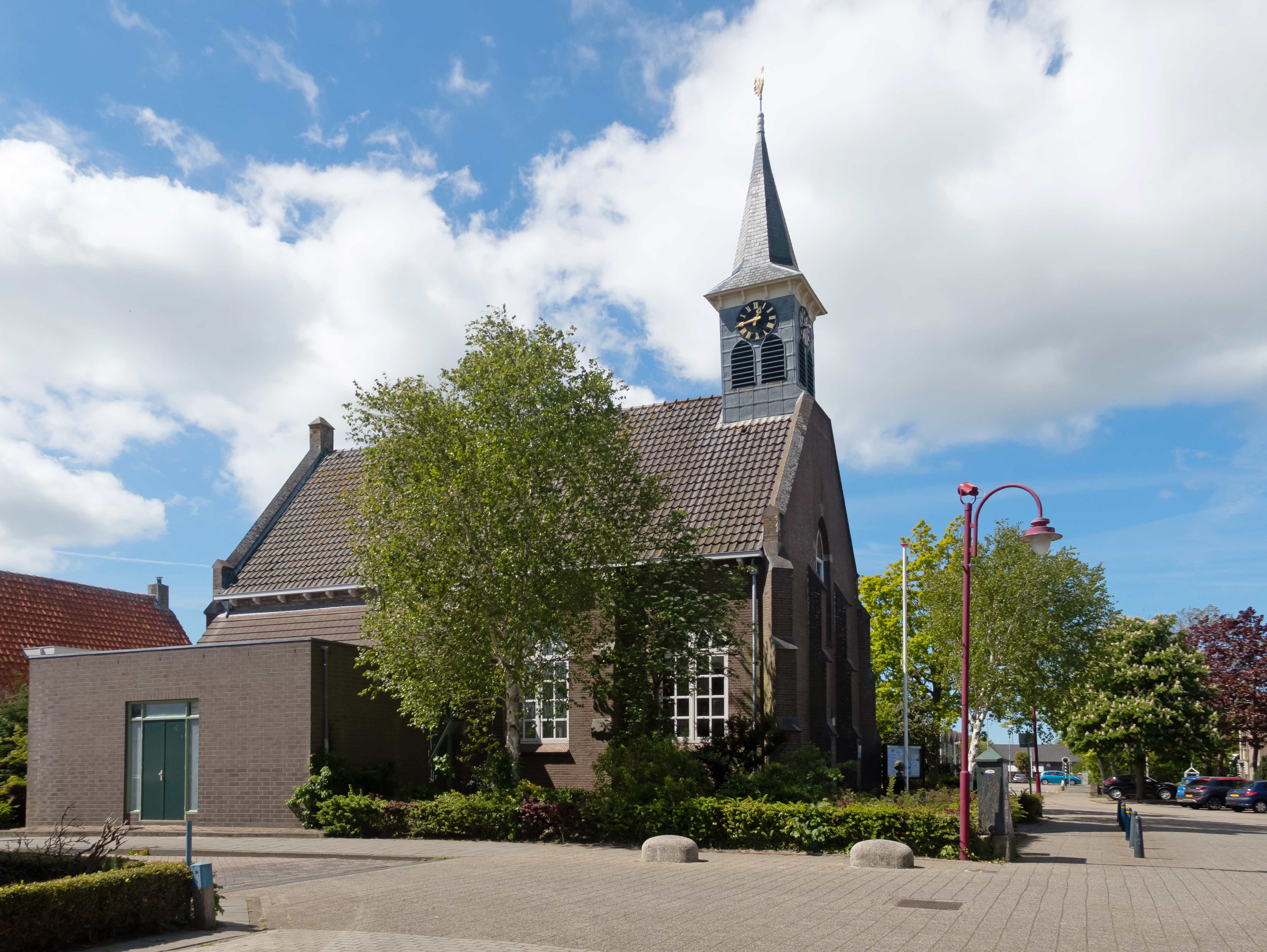 Julianadorp, church: de Ontmoetingskerk